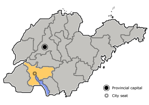 The prefecture-level city of Jining is highlighted on this map of Shandong province, People's Republic of China.